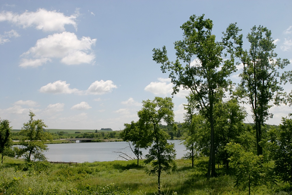 County road F27 and its bridge over Rock Creek State Park in Iowa.